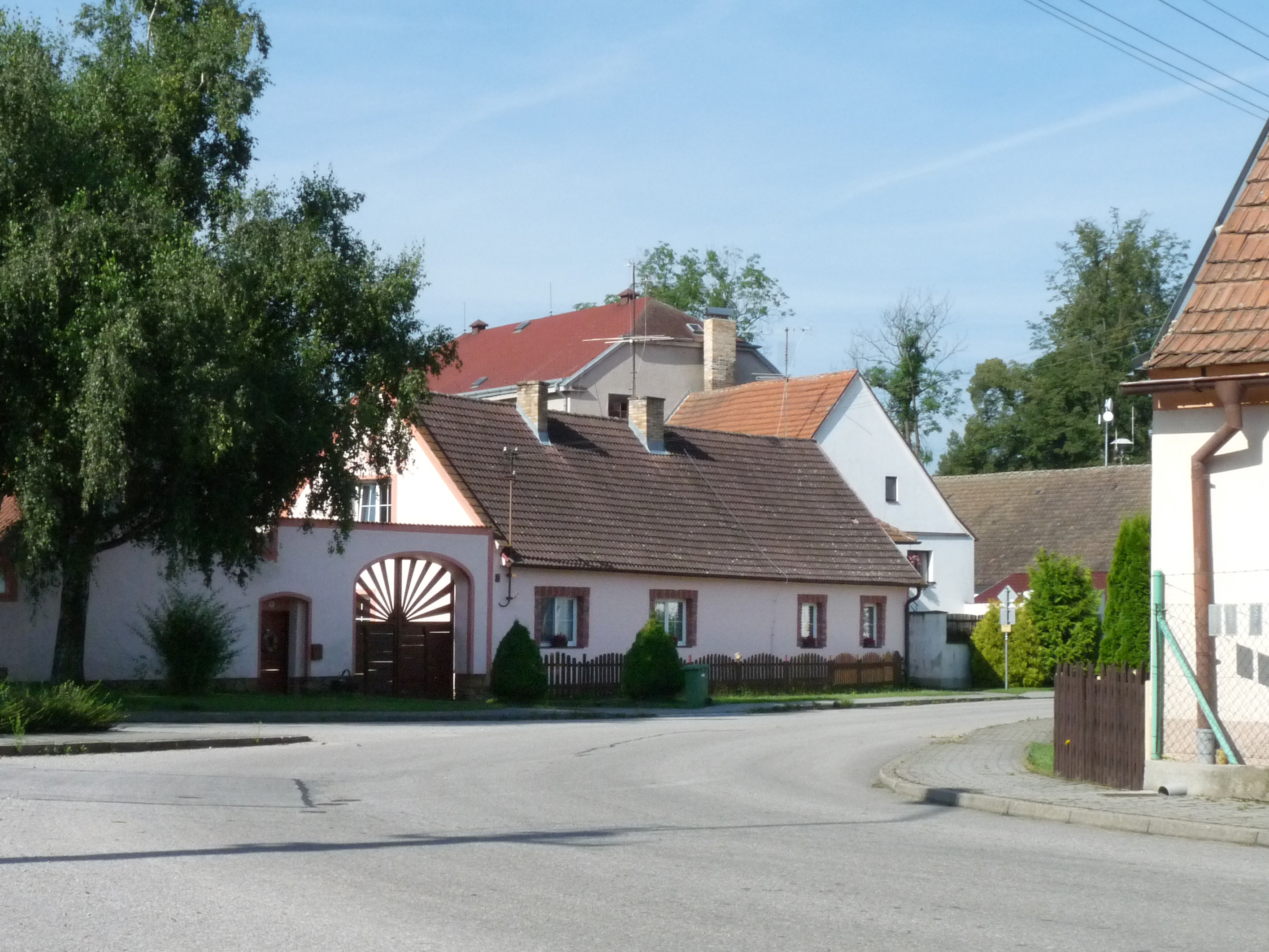 House No 16 in Plav village green, České Budějovice district, Czech Republic